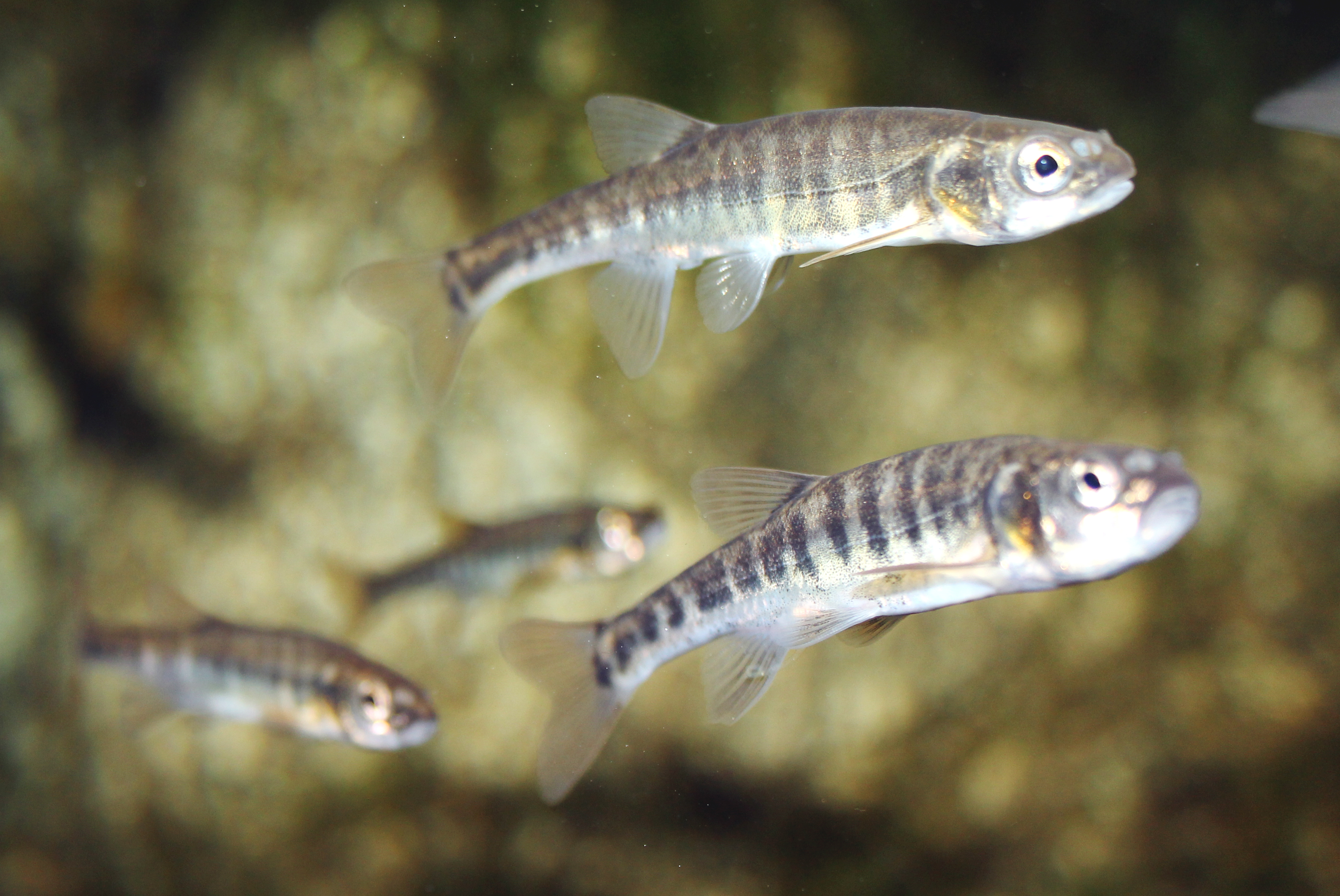 Fish Common minnow on exhibition Subaqueous Vltava, Prague 2011, Czech Republic